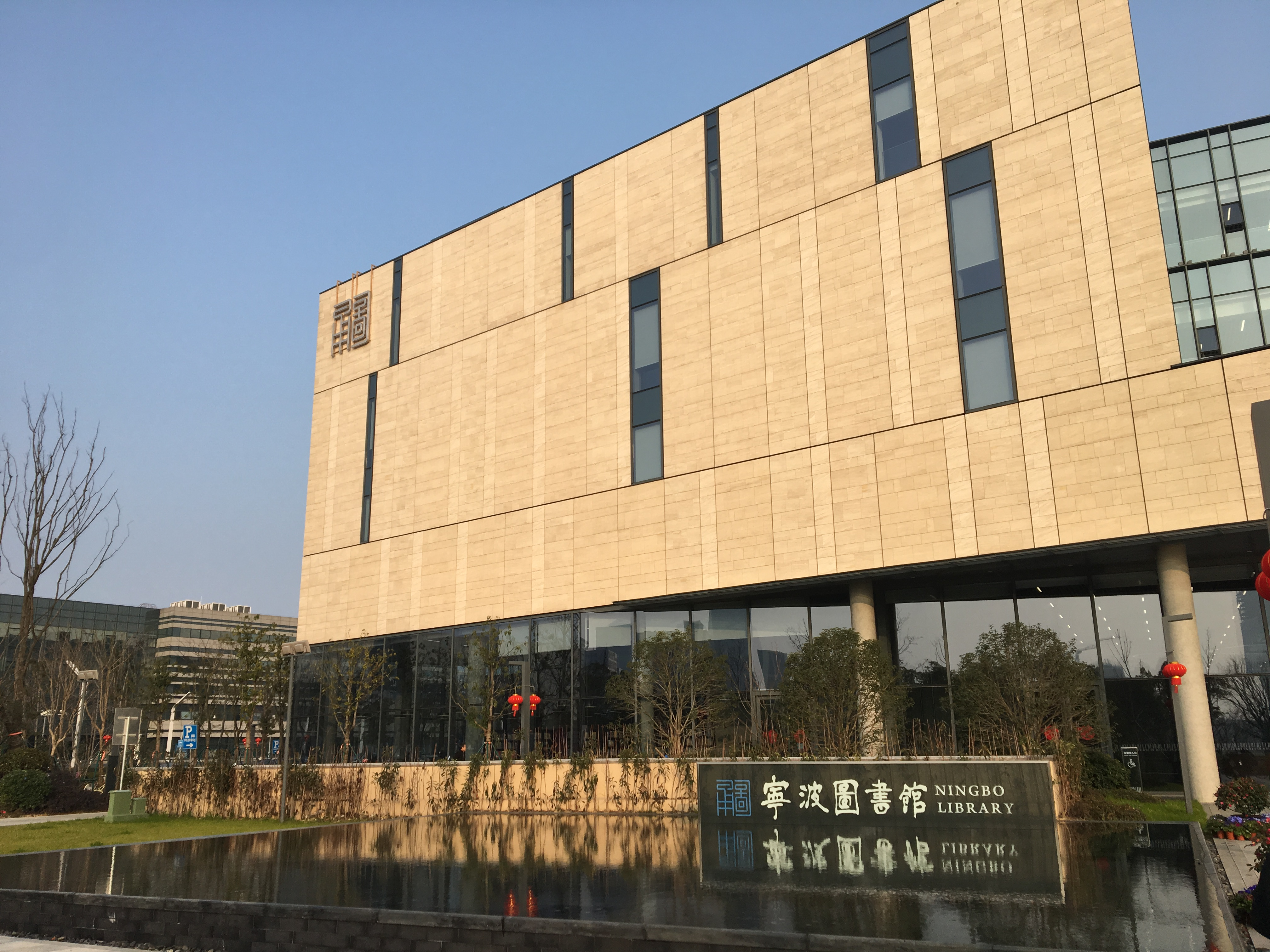 Ningbo Library New Building Entrance